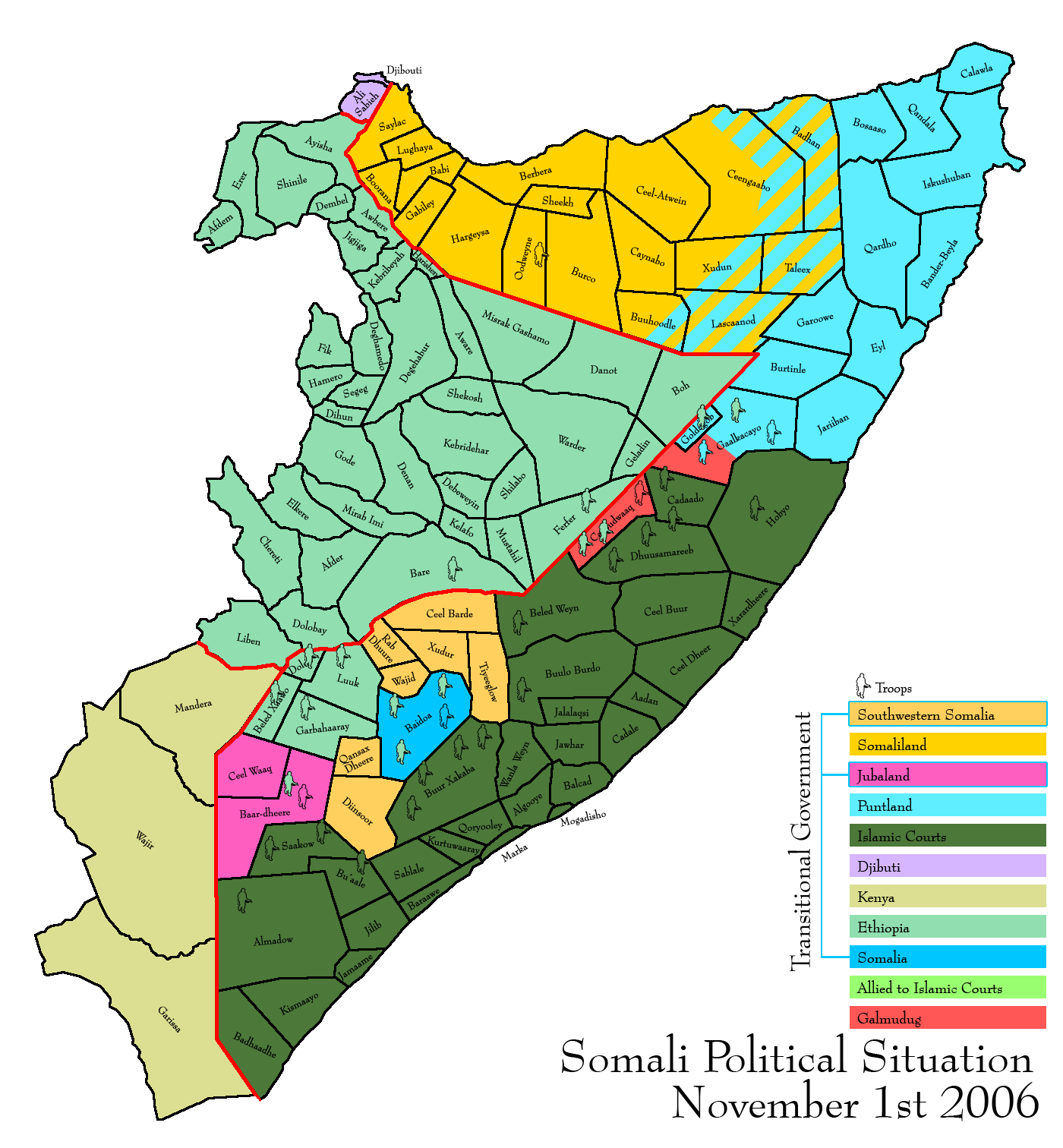 Somali political situation as of November 1, 2006.